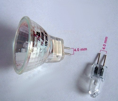 MR11-Reflector with bulb socket GU4 (left) and G4 (right)